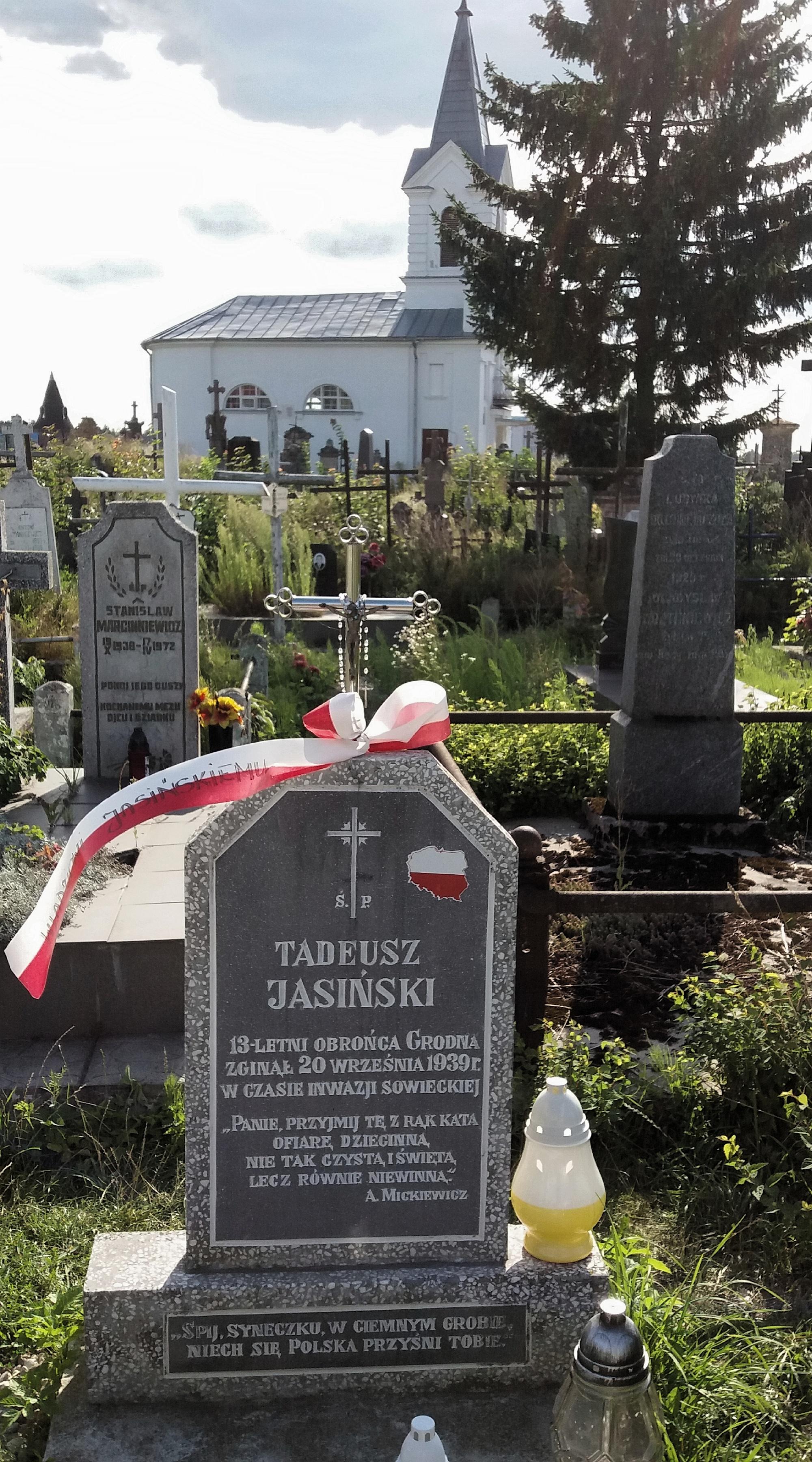 Farnyja Cemetery, Hrodna